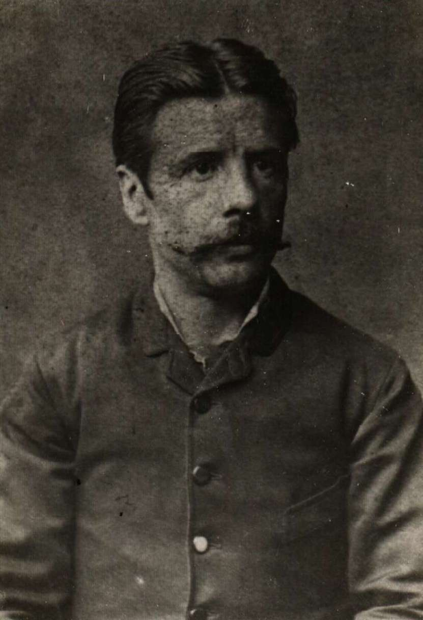 Bulgarian painter Atanas Gyudzhenov (1847-1936)